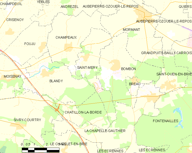 Map of French municipality Saint-Méry